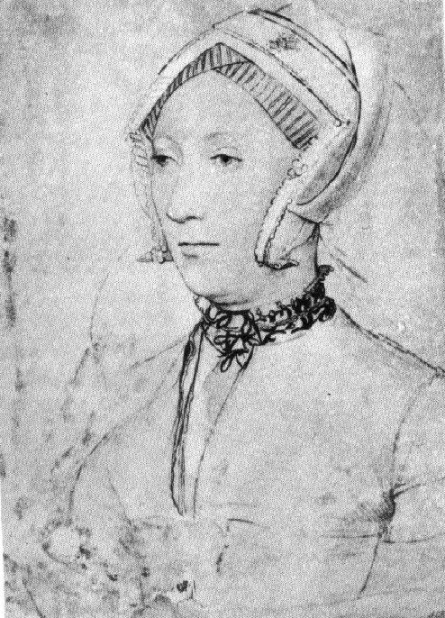 Catherine Willoughby, fourth wife of Charles Brandon, first Duke of Suffolk, Sketch of Catherine Willoughby by Hans Holbein the Younger